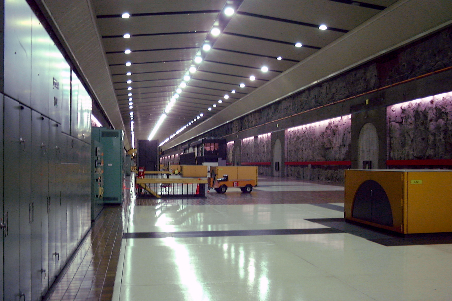 Inside the Robert-Bourassa hydroelectric power plant on La Grande river in northern Quebec.